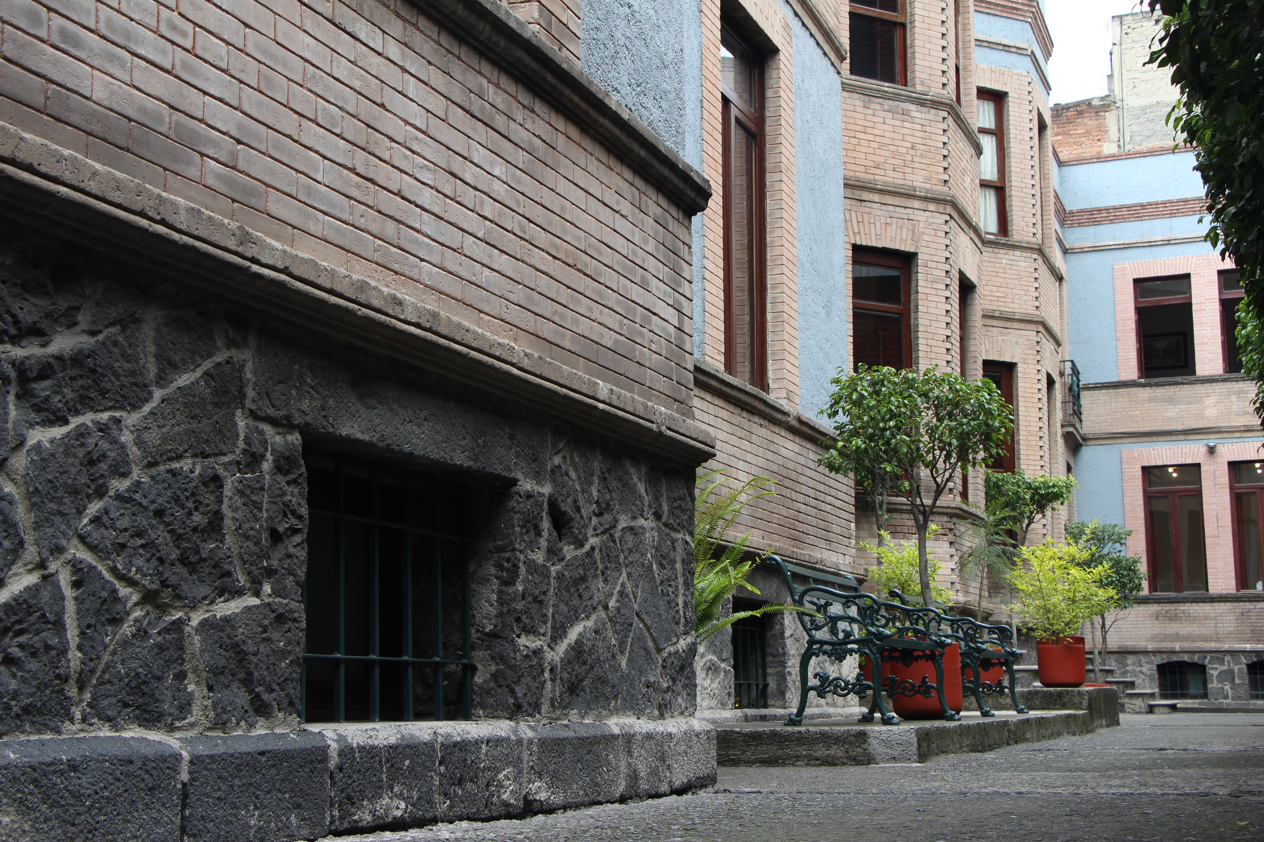 Entrance to the museum Casa del Poéta Ramón López Velarde, at Colonia Roma, Mexico City